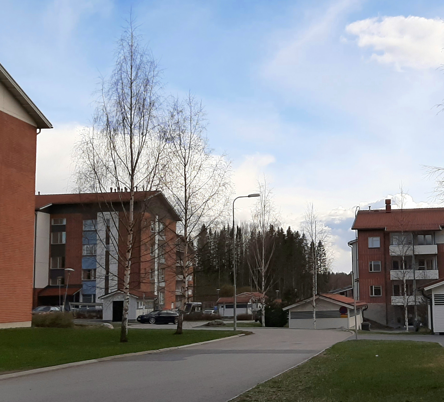 Apartment buildings built in the 2000s in Heinämutka, Heinälampi, Jyväskylä.